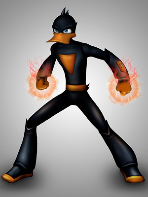 Digital fan art piece of Loonatics Unleashed animated series.